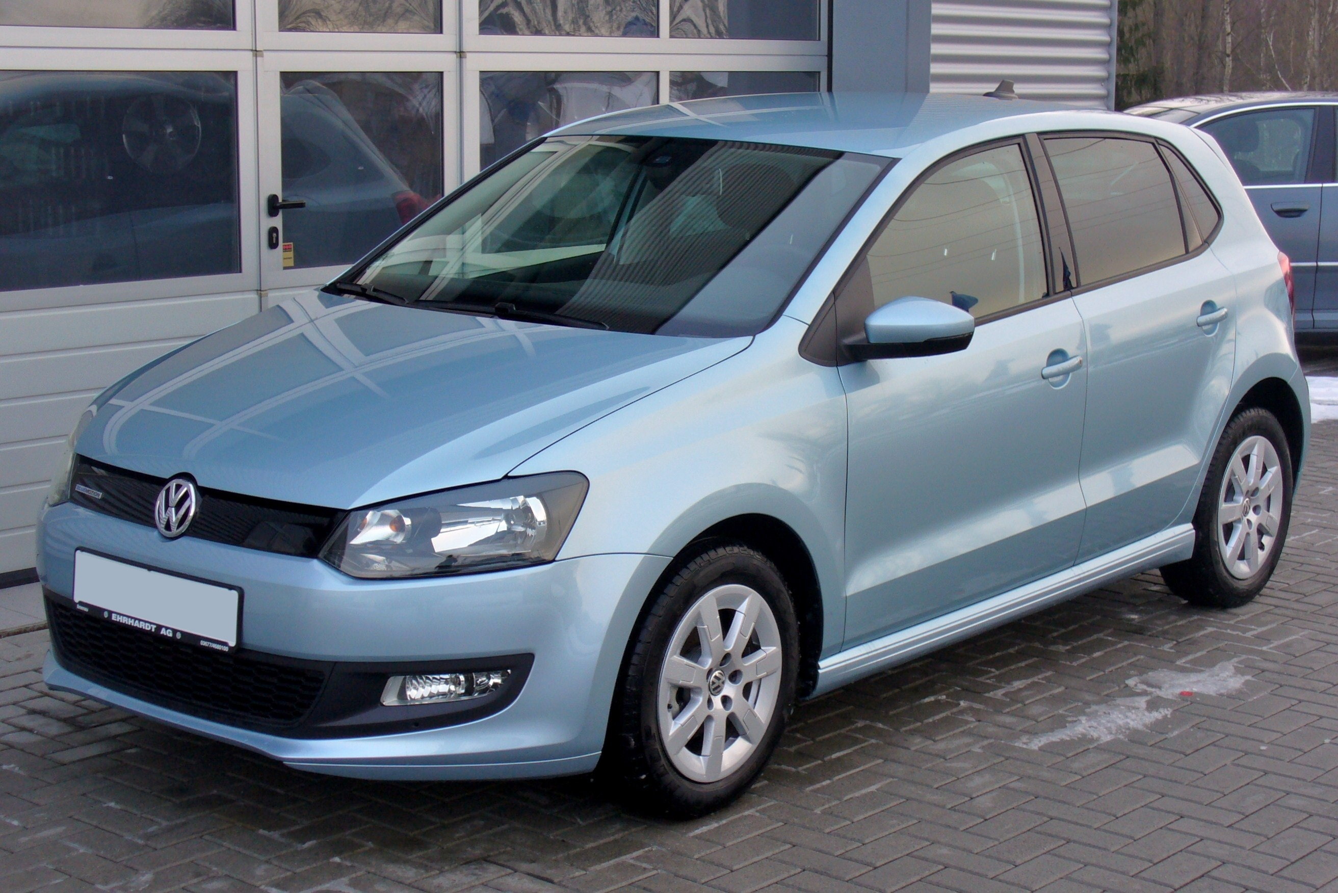 VW Polo V BlueMotion